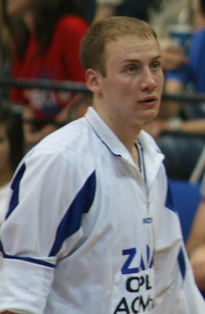 Hrvoje Perić, player of Zadar, in third match of Croatian basketball finals season 2009/2010